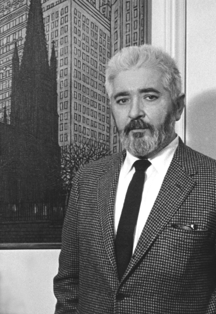 Jacques Hnizdovsky in front of his painting "Trinity Church" at an exhibition of his paintings of Paris and New York, held at La Maison Francaise at New York University